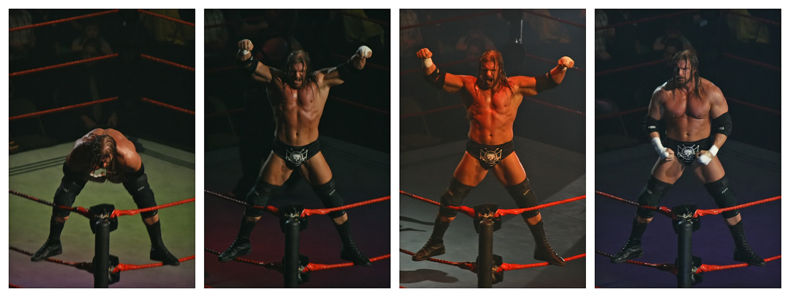 Triple H (Paul Michael Levesque) performing his ring entrance pose involving standing on the second rope at the back righthand corner of the ring (from the usual TV camera point-of-view), pulling his arms up and back, and expanding his chest. Taken during the WWE Raw - Survivor Series Tour, at Rod Laver Arena, Melbourne Park, Melbourne, Australia. Triple H wrestled in the main event of the night, a tag-team bout involving Umaga & Randy Orton (reigning WWE Champion) vs Jeff Hardy (reigning Intercontinental Champion) & Triple H; the match was won by Triple H pinning Orton following a pedigree. This four shot sequence was taken at two second intervals (10:03:17pm, 10:03:19pm, 10:03:21pm, & 10:03:23pm EDST), 10 November, 2007.